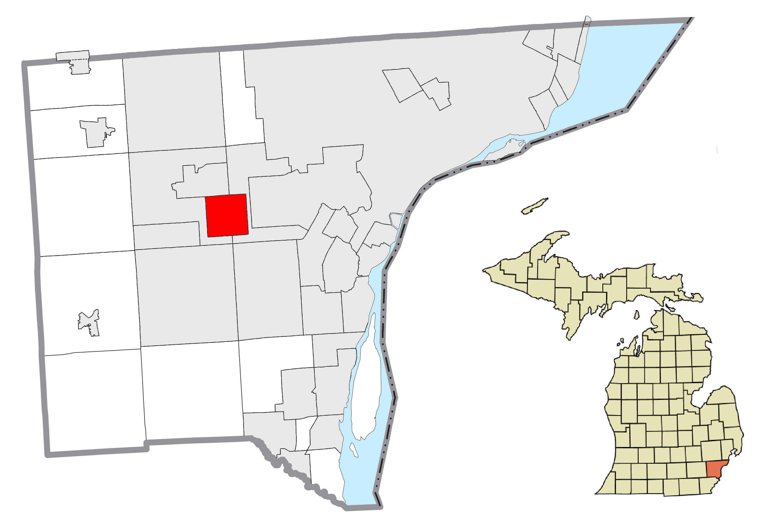 Inkster, MI